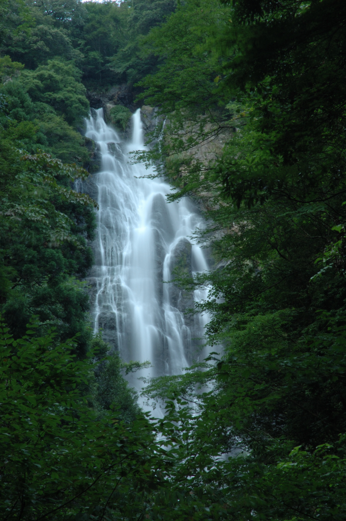 Kanba Falls